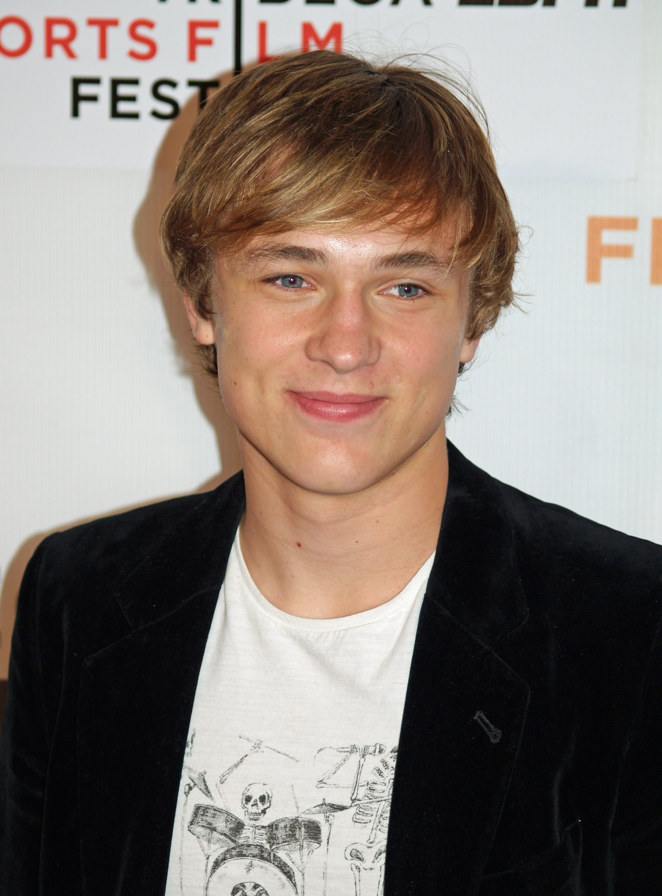 William Moseley at the premiere of Redbelt! at the 2008 Tribeca Film Festival.